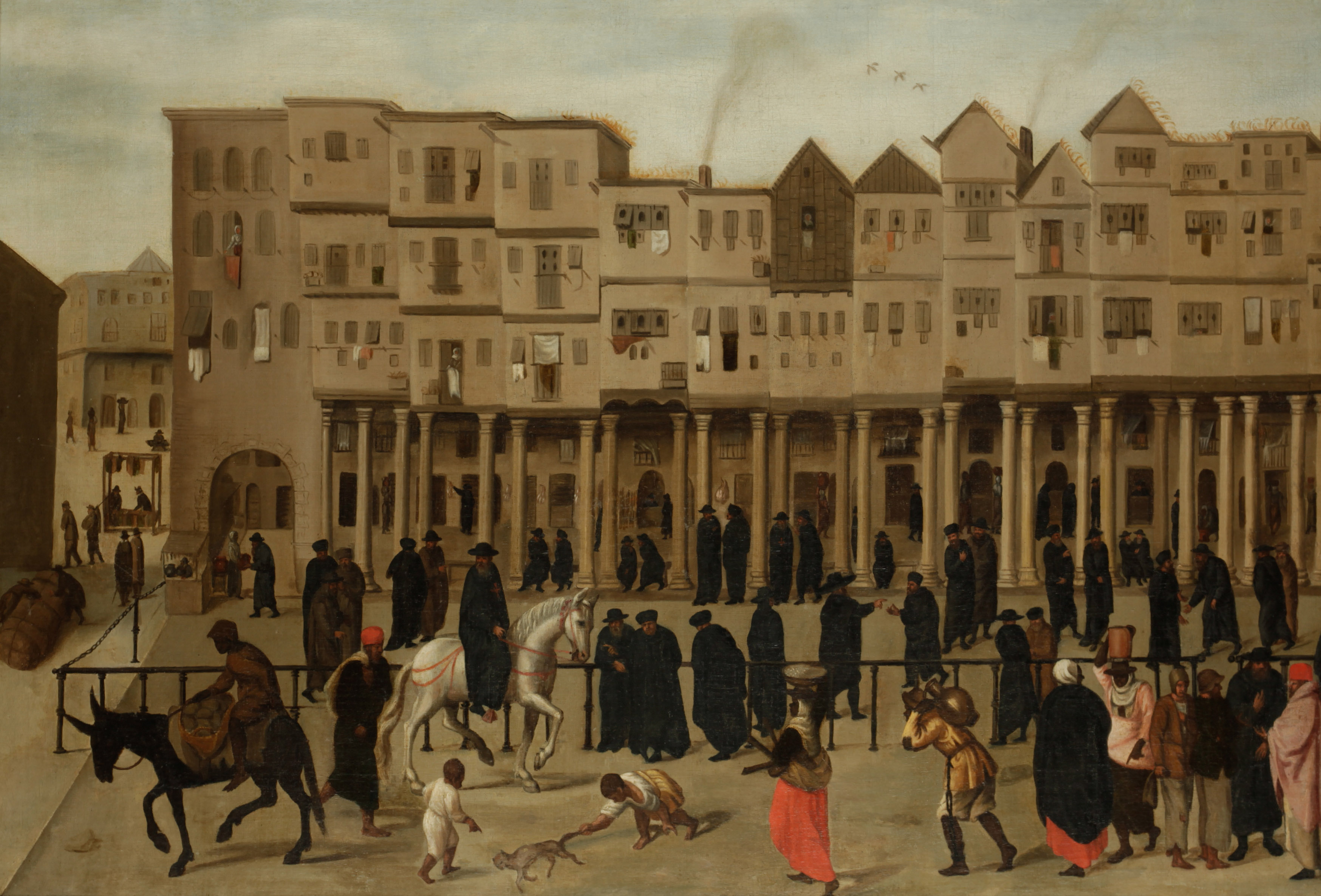 Painting depicting the Rua Nova dos Mercadores (lit. New Street of Merchants), the main commercial hub of 16th-century Lisbon, Portugal. The street was completely destroyed during the 1755 Lisbon Earthquake.